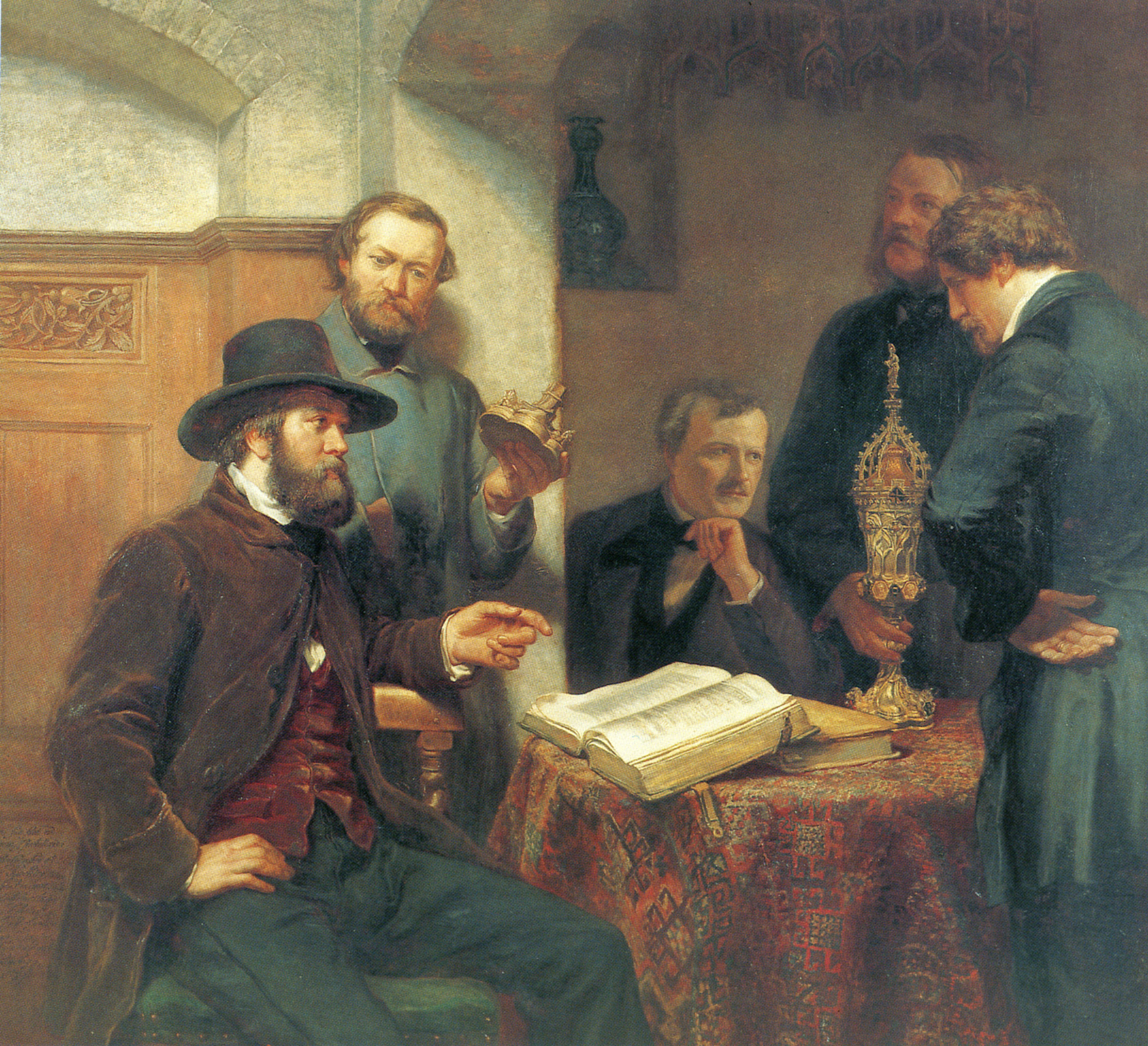 left to right: Günther Gensler, Otto Speckter, Adolph Friedrich Vollmer, Martin Gensler und Hermann Rudolf Hardorff. The painting shows the meeting of the 5 artists on the occasion of critically evaluating the Lukas-Pokal (Lukas-cup). The cup was designed by Martin Gensler and created 1857 by the Hamburg goldsmith Johann Paul Friedrich Sohrmann.